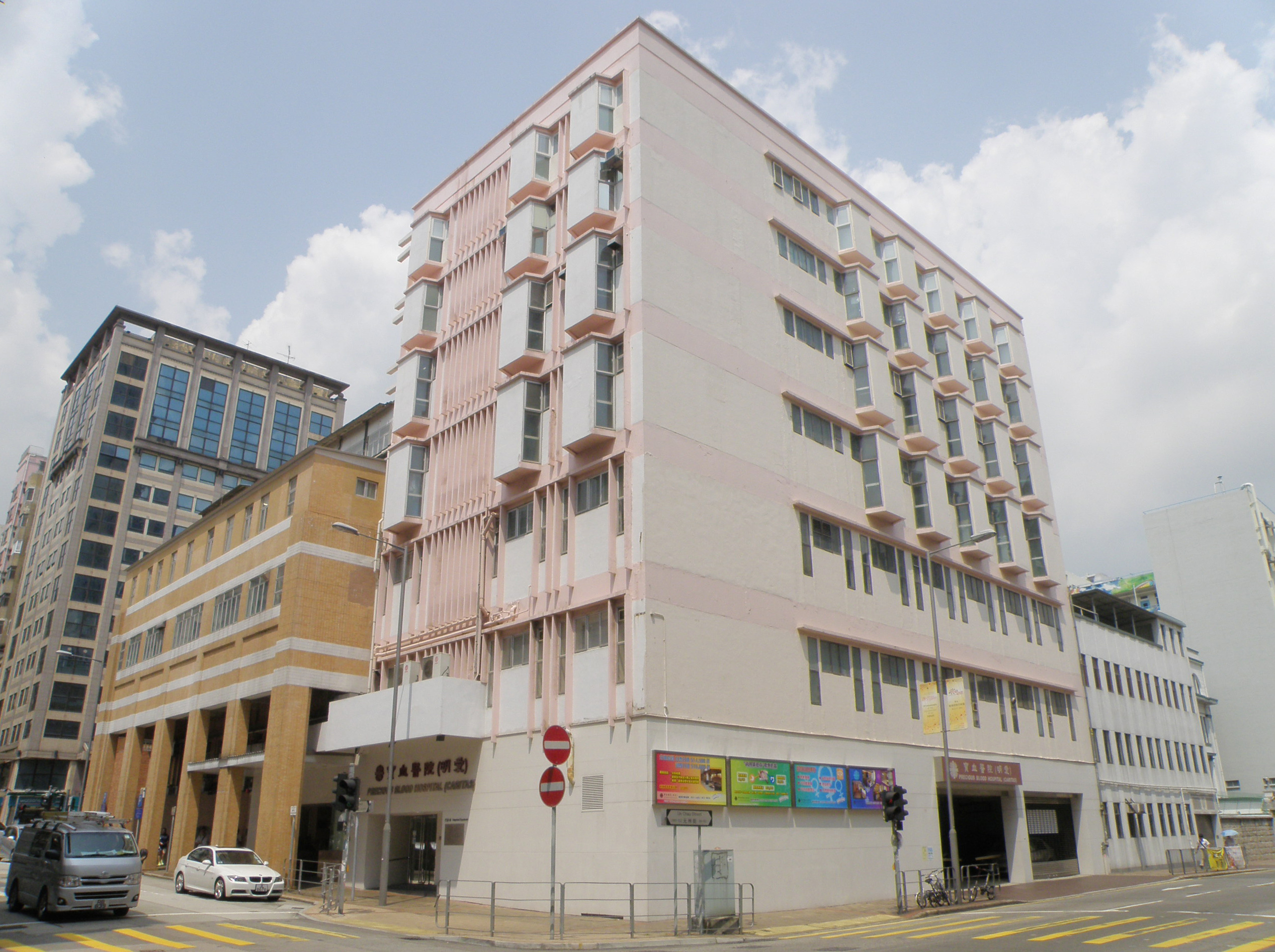 Precious Blood Hospital in Sham Shui Po, Hong Kong.